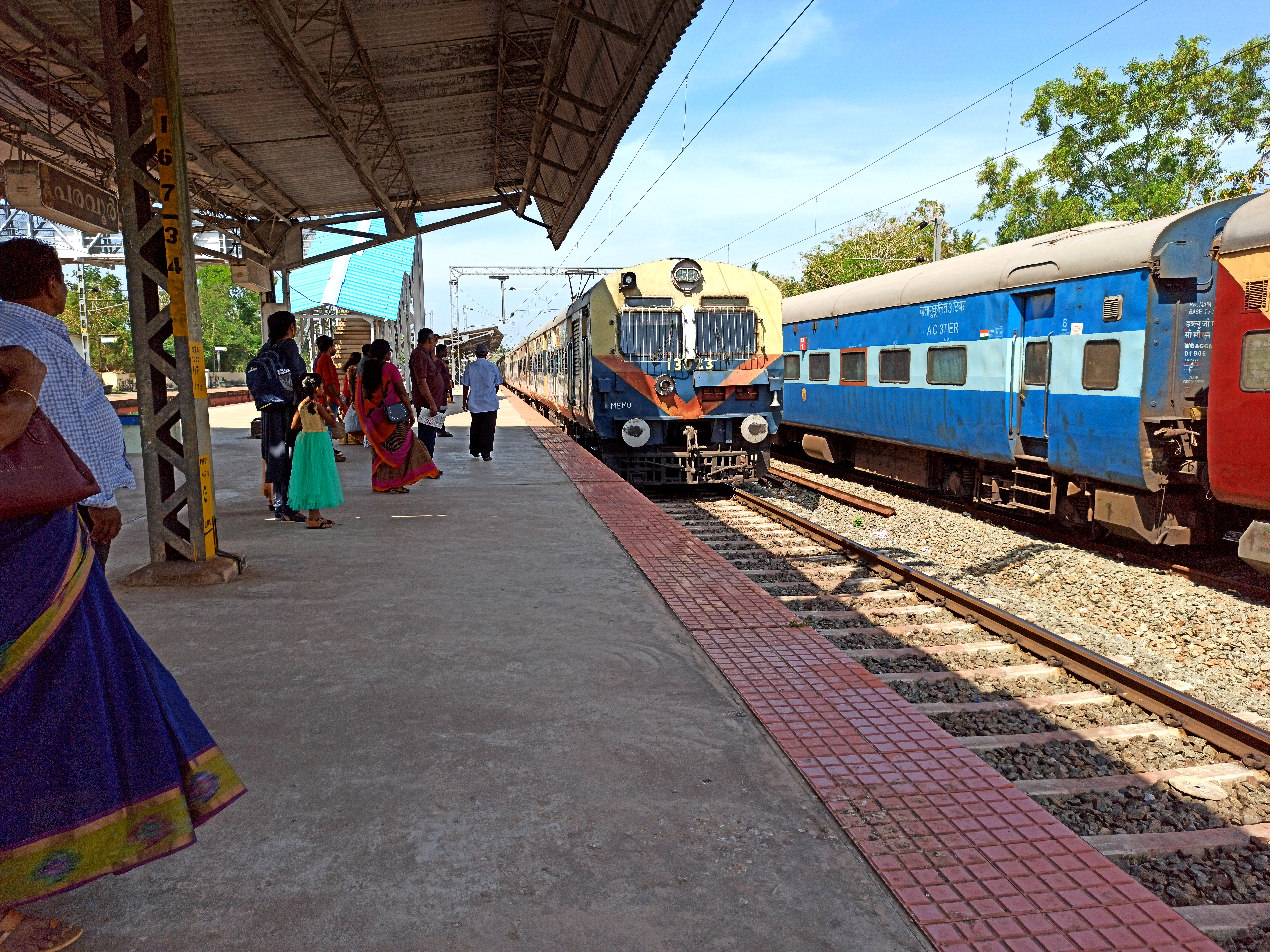 The Mainline Electric Multiple Unit (MEMU) are electric multiple (EMU) trains that serve short- and medium-distance routes in India, as compared to normal EMU trains ("local" trains) that connect urban and suburban areas.